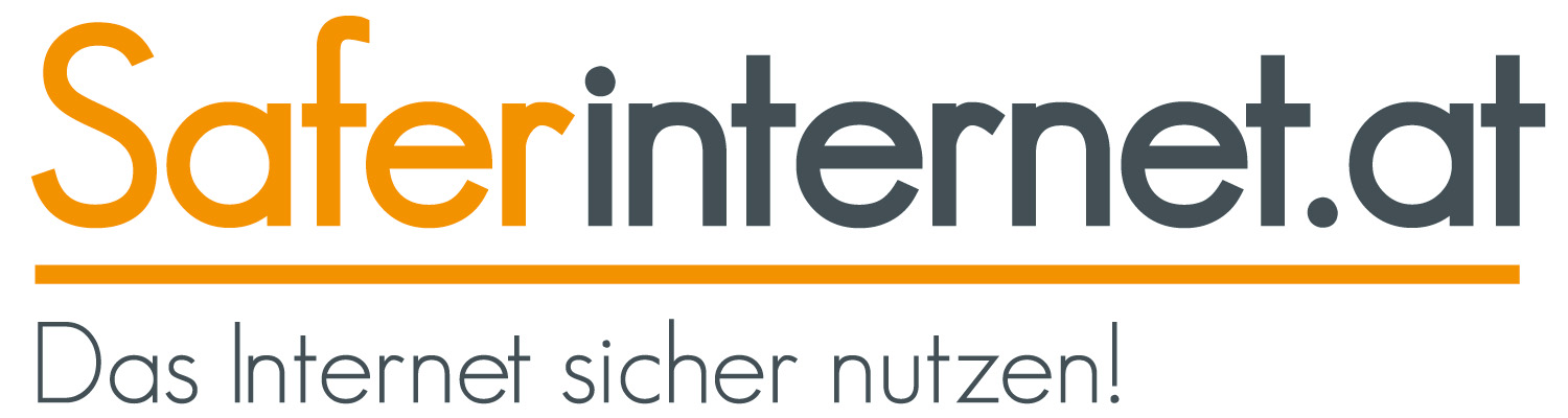 Logo of saferinternet Austria